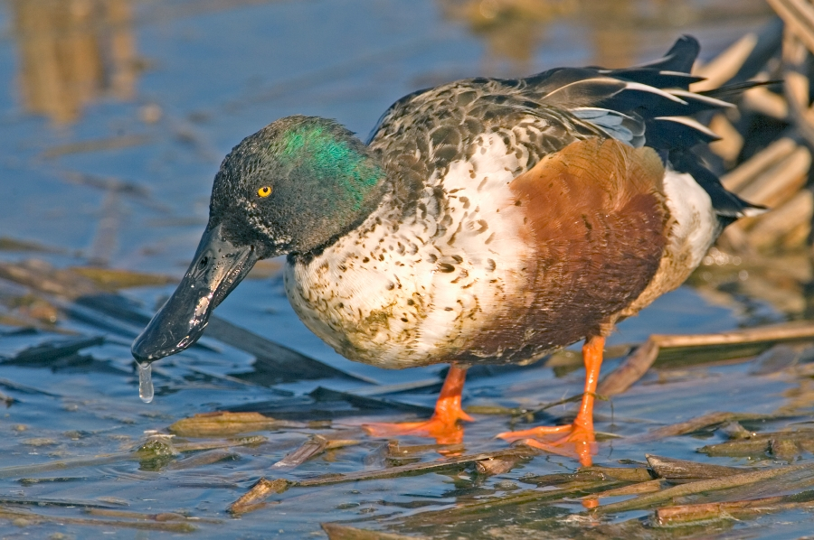 Northern Shoveler (Anas clypeata), Rockport, Texas